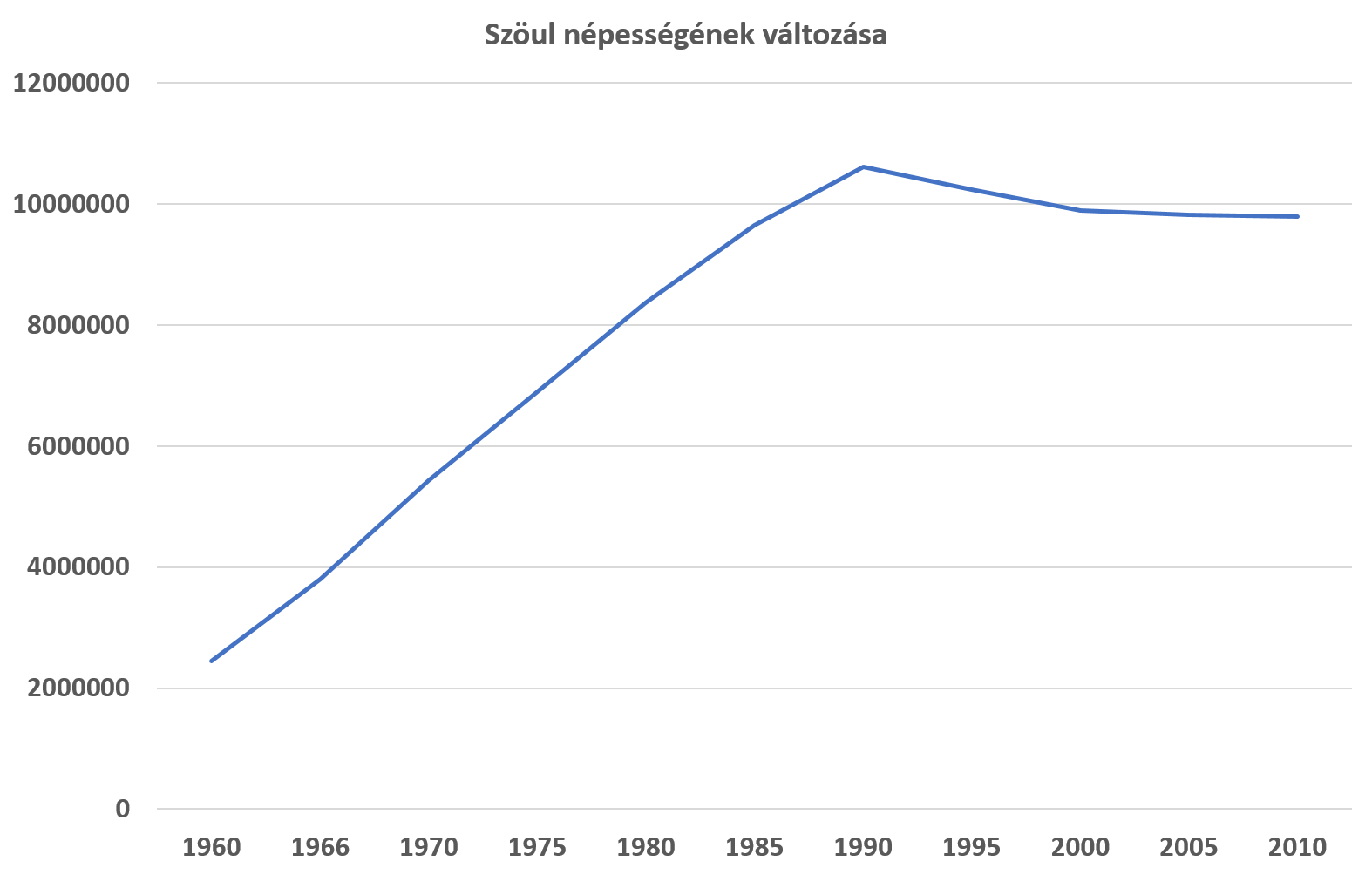 Population changes of Seoul based on census data. Data from Seoul Metropolitan Government